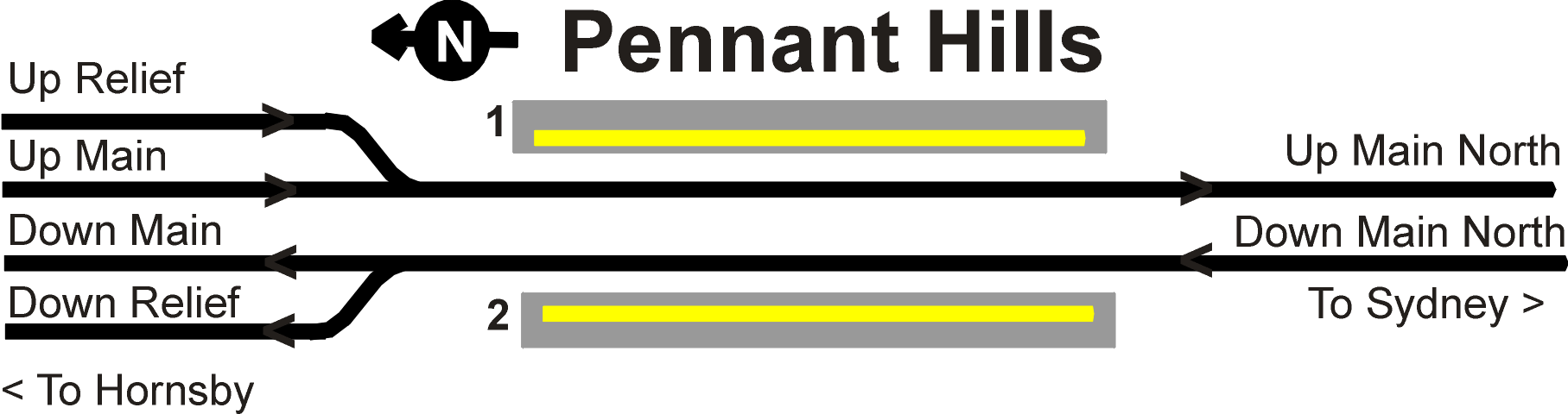 Track arrangement at Pennant Hills railway station, Sydney